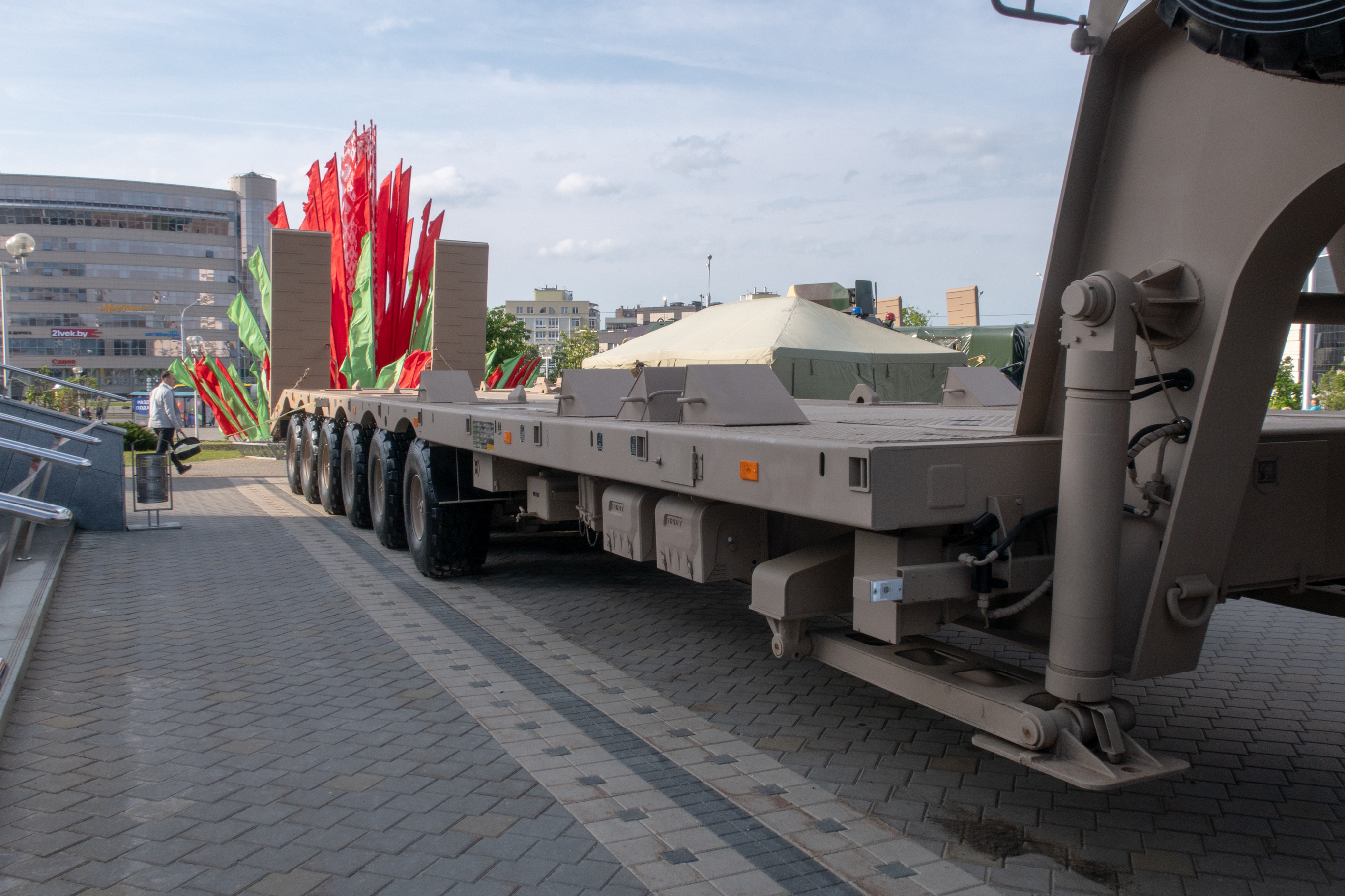 First trailer MZKT-999421 of the Belarusian tank transporter MZKT-741351